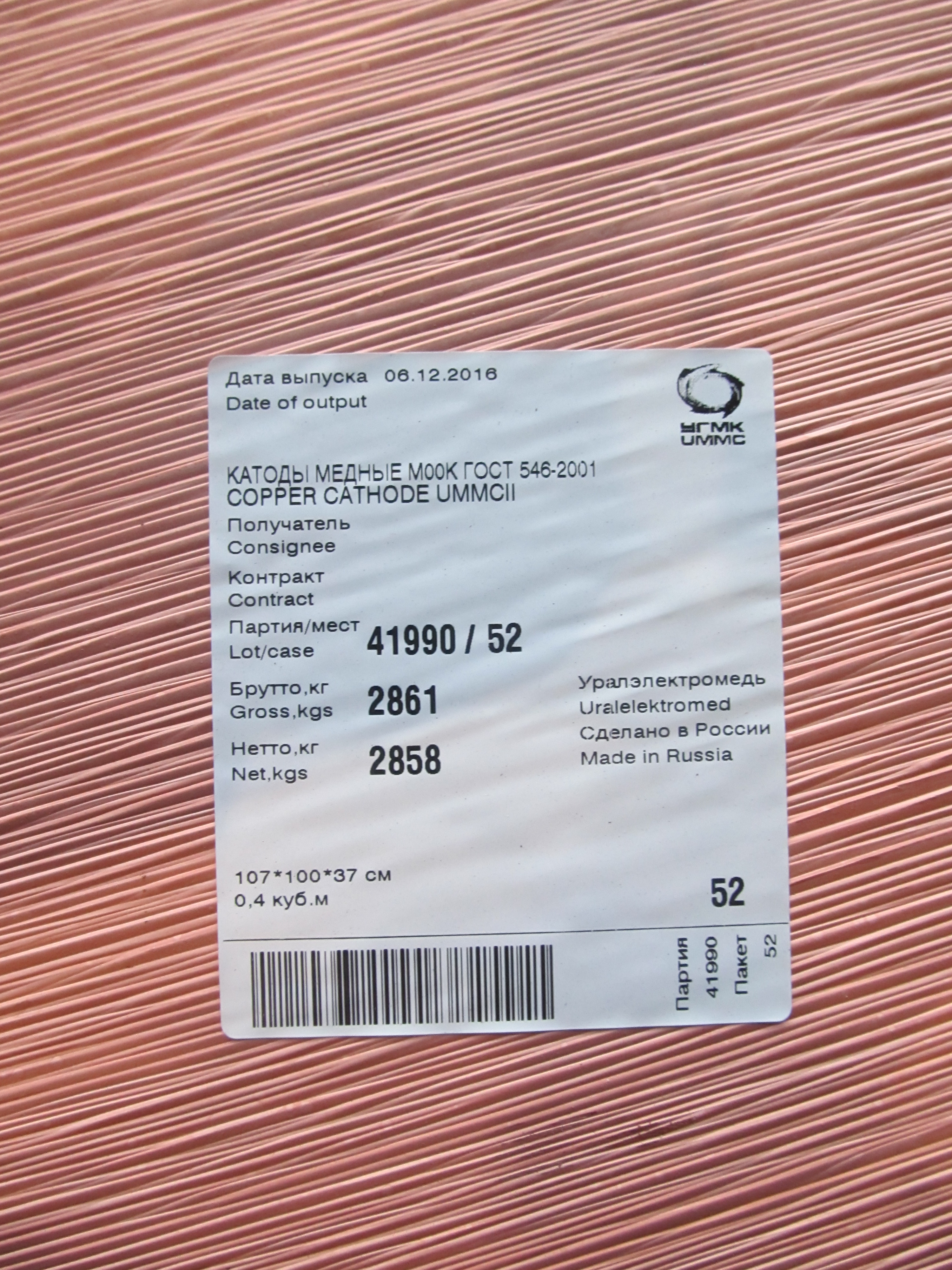 Copper cathode UMMCII Uralelectromed